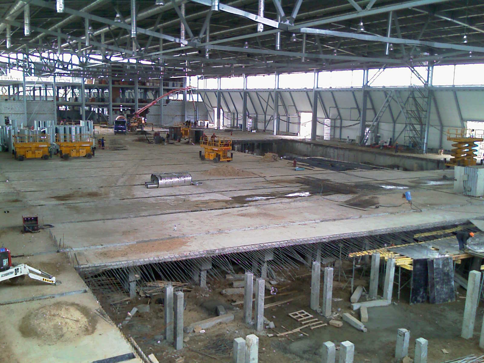 Ekaterinburg-Expo under construction in 2011